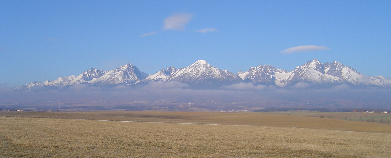 High Tatras from Matejovce, Poprad